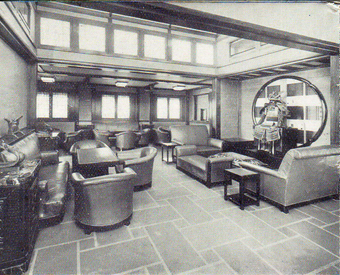 Smoking Room 1st Class of O.S.K. Line "Buenos Aires Maru"(1929).